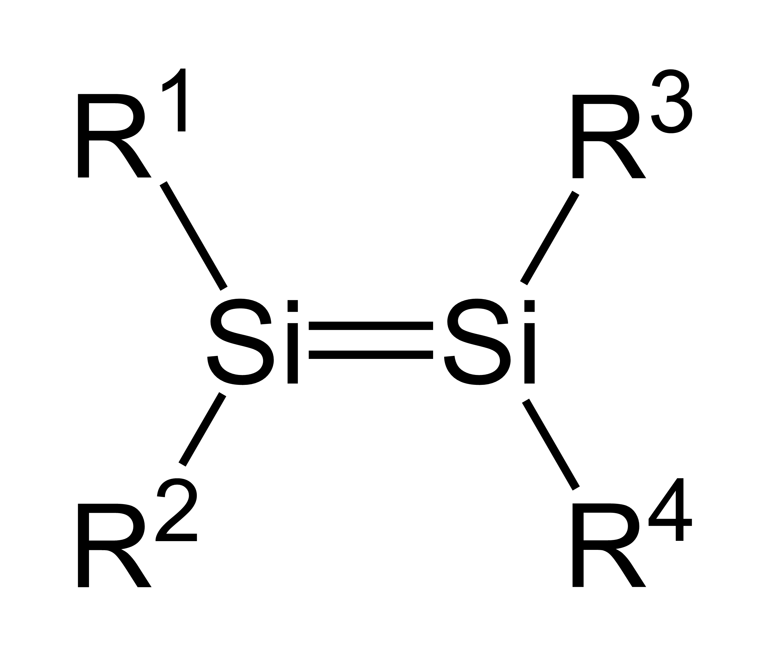 General structure of disilenes